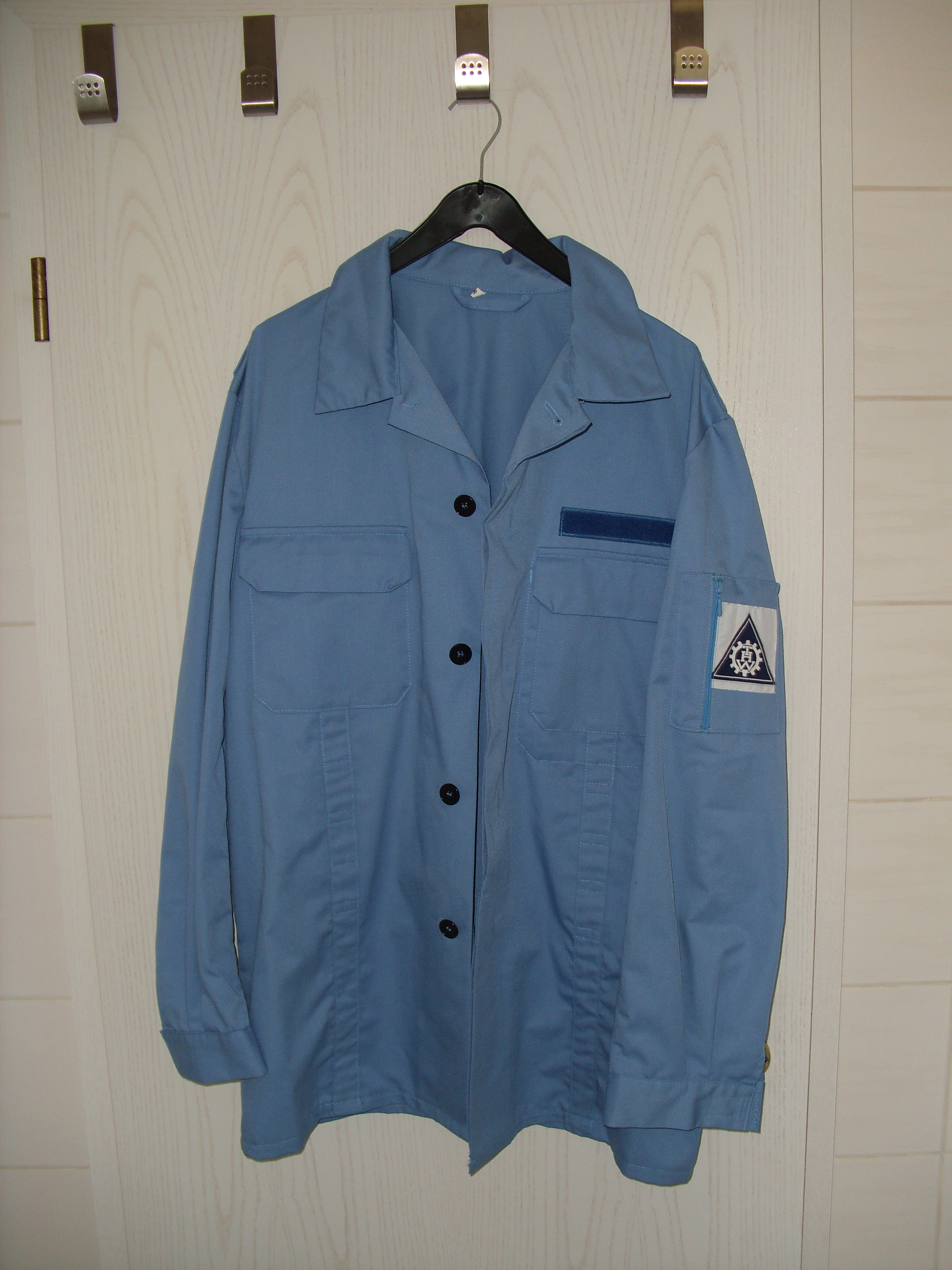 1993 Jacket of the Federal German Civil Protection Organisation "Technisches Hilfswerk"